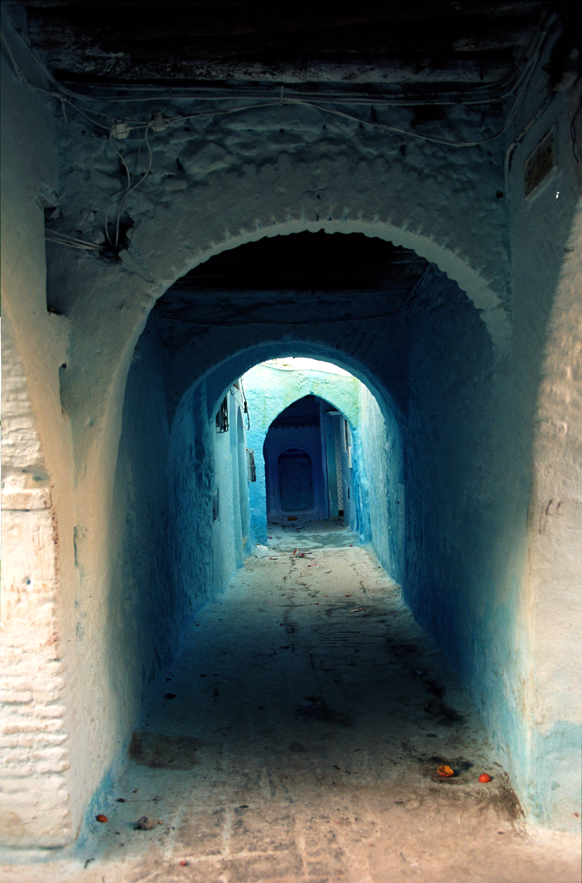 Chefchaouen, blue-rinsed house